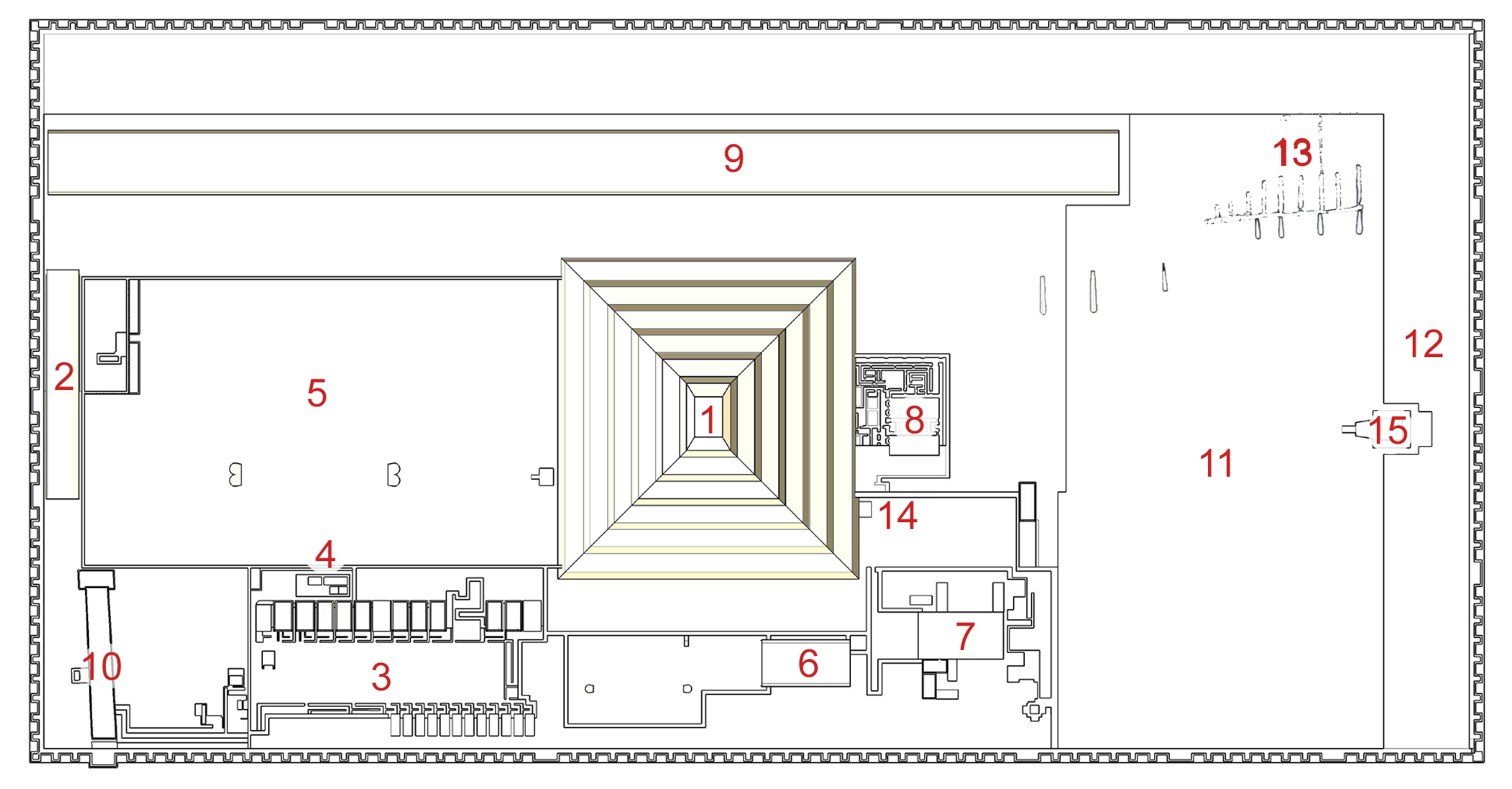 Plan of the Djoser Pyramid Complex